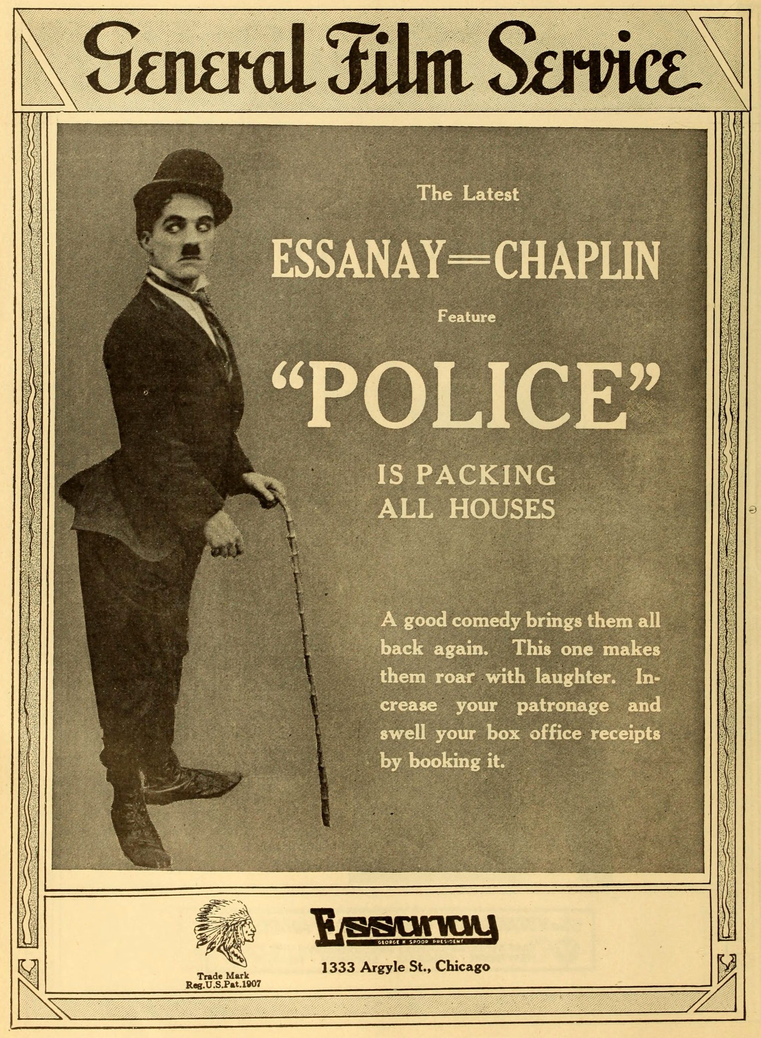 Advertisement in The Moving Picture World for the American comedy film Police (1916).